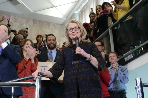 U.S. Secretary of State Hillary Rodham Clinton delivers farewell remarks to State Department employees on her final day in office.